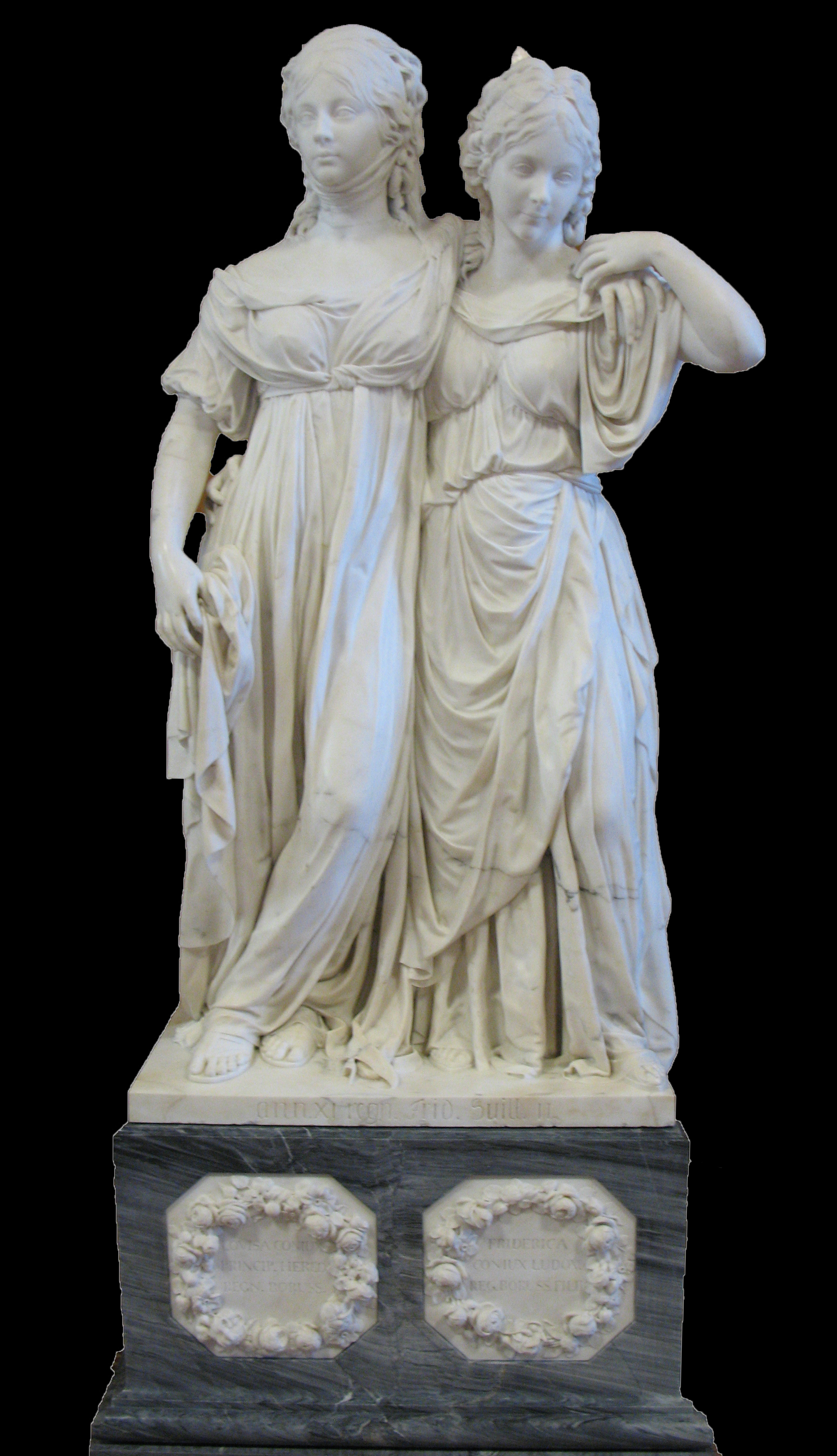 The "Prinzessinnengruppe" (Luise von Mecklenburg-Strelitz and her sister Friederike). Work by Johann Gottfried Schadow, 1795.